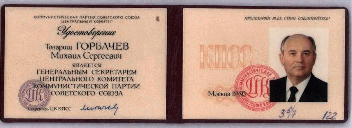 Identity cards / Document of the General Secretary of the Central Committee of the Communist party of the Soviet Union, Mikhail Gorbachev